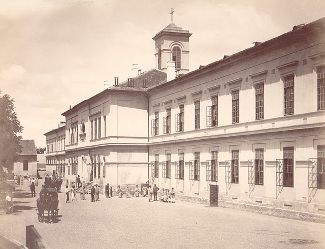 arad